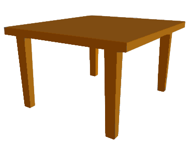 Modification of table picture by Eric Pöhlsen.